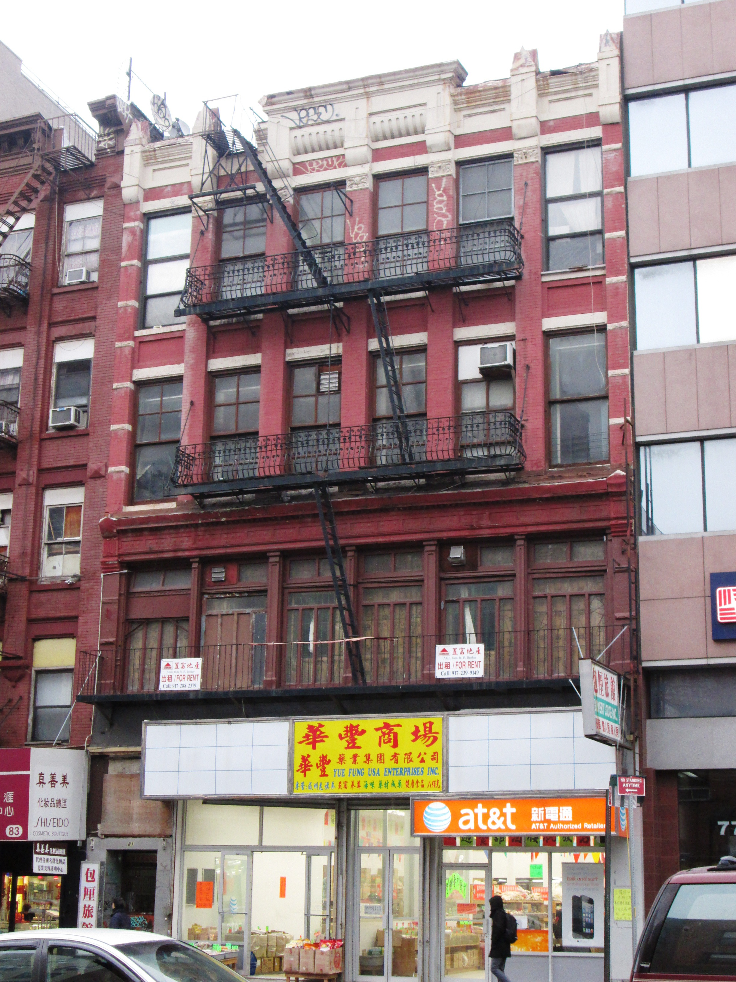 The Bowery Lodge at 81 Bowery between Hester Street and the approaches to the Manhattan Bridge was built c.1901 and is one of the last surviving "flophouses" (extremely cheap hotels) in what used to be Manhattan's "Skid Row". (Source: AIA Guide to NYC (5th ed.))